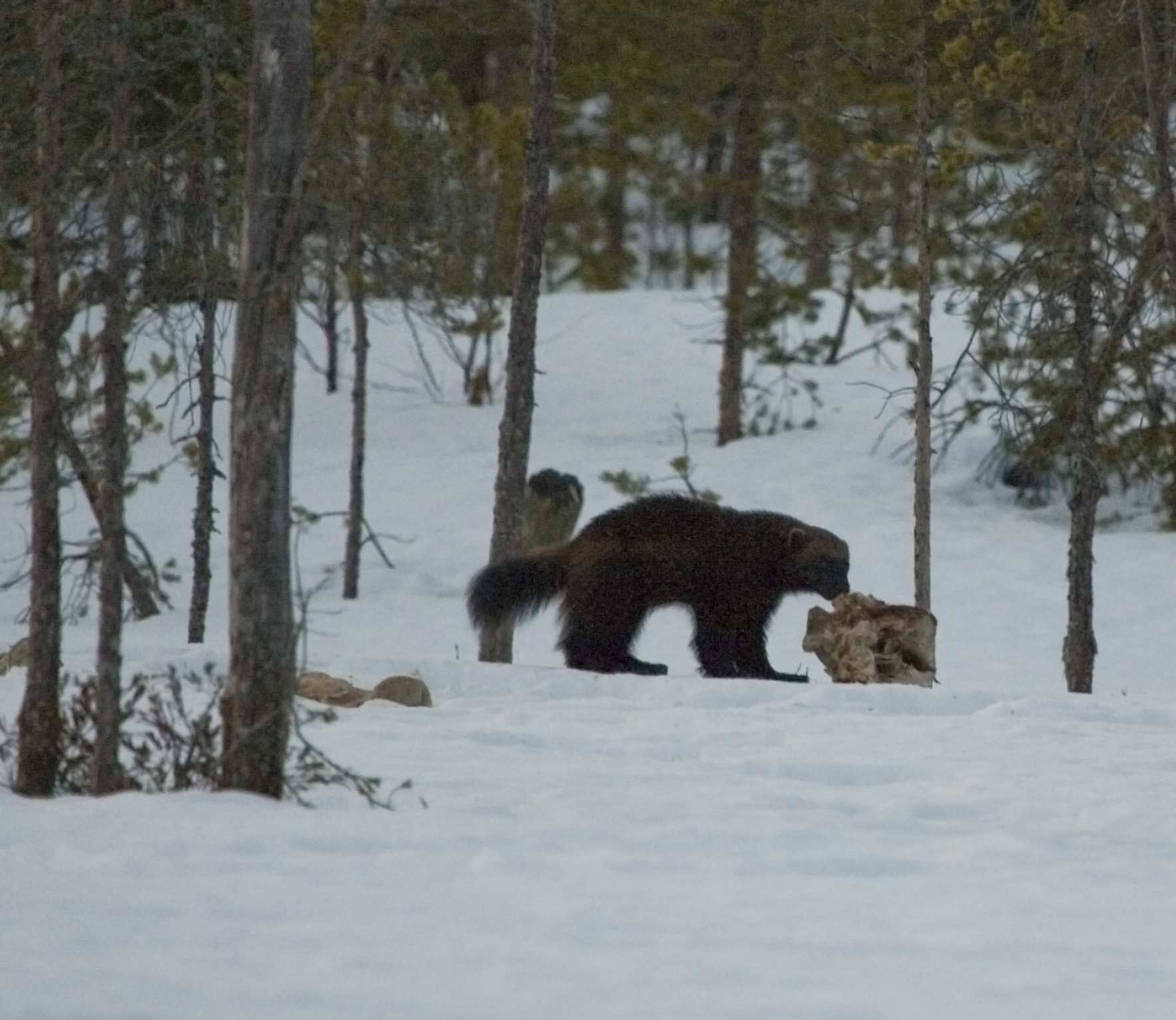 Wolverine (Gulo gulo).